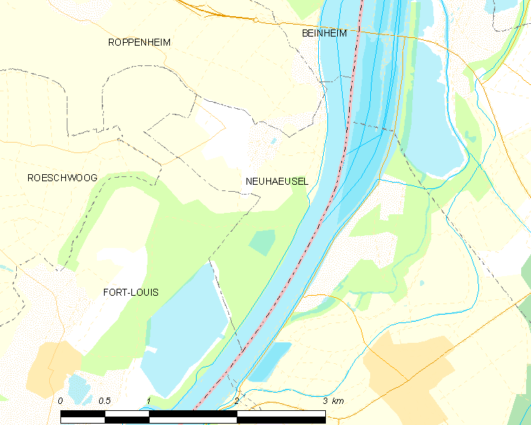 Map of French municipality